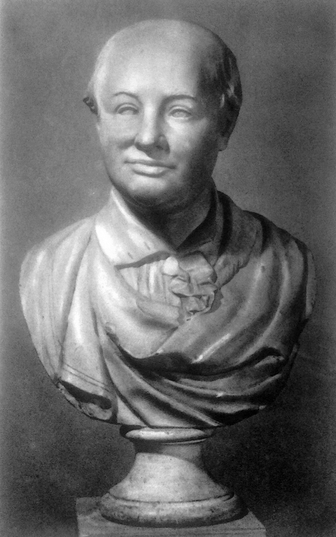 Photograph